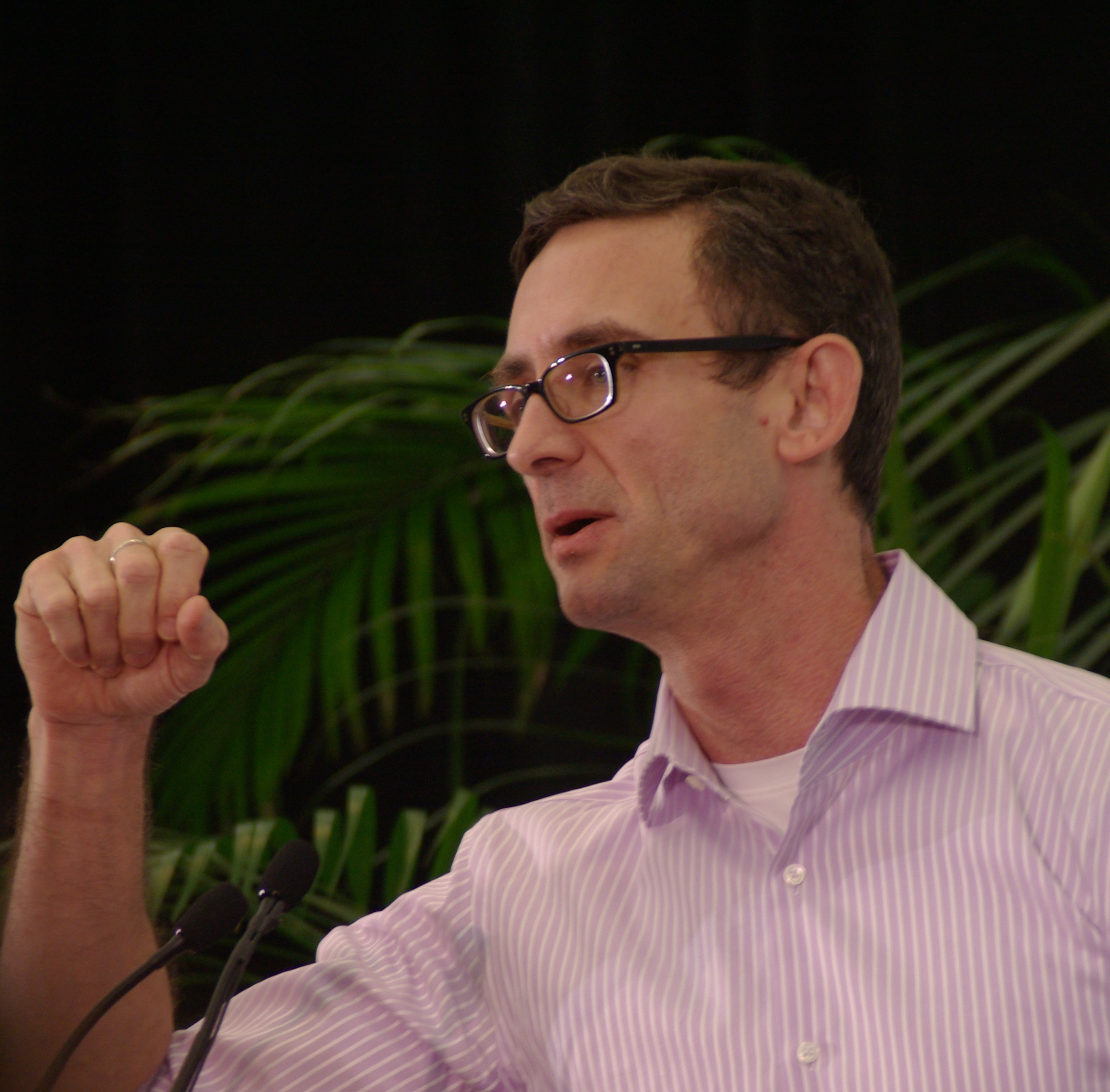 American writer Chuck Palahniuk at the Miami Book Fair International 2011